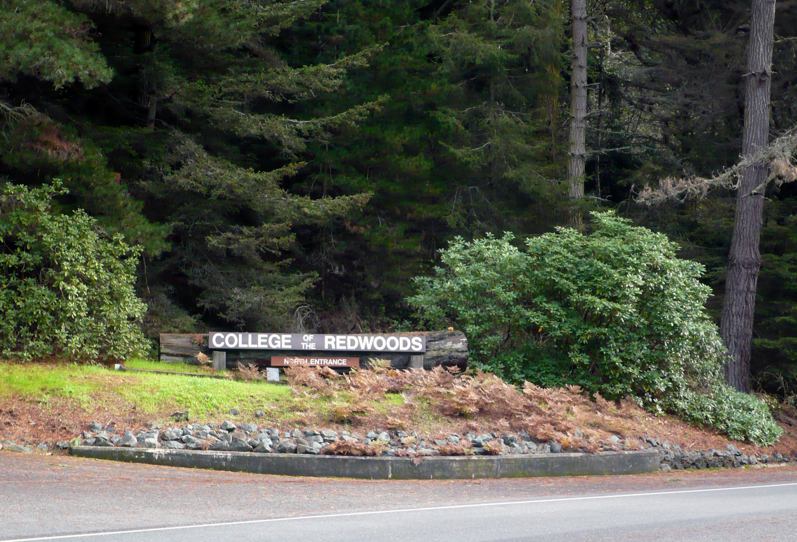 The north entry of the College of the Redwoods a public two-year community college located in Eureka, California which leads to the Humboldt Botanical Gardens.